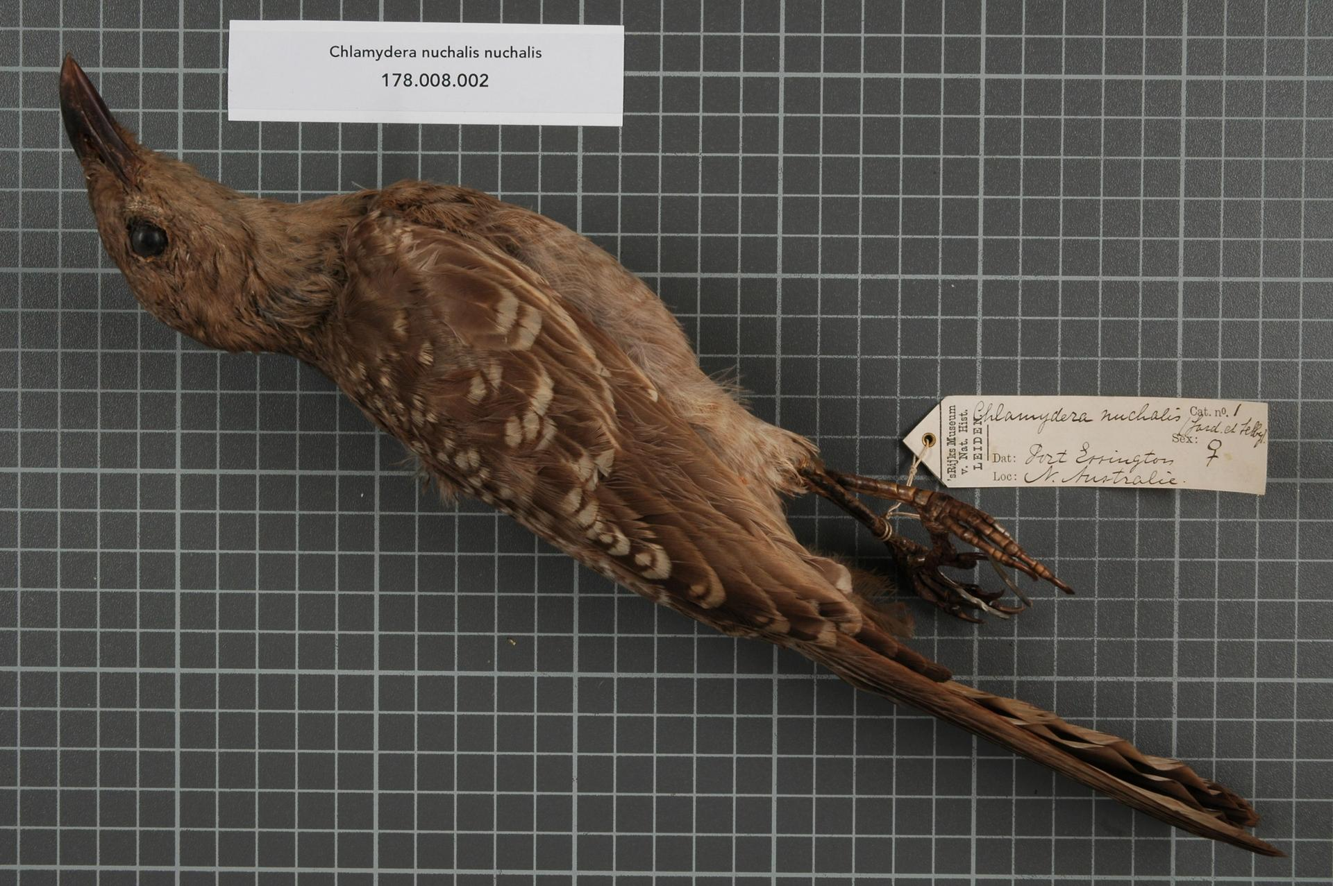 Chlamydera nuchalis nuchalis (Jardine & Selby, 1830)